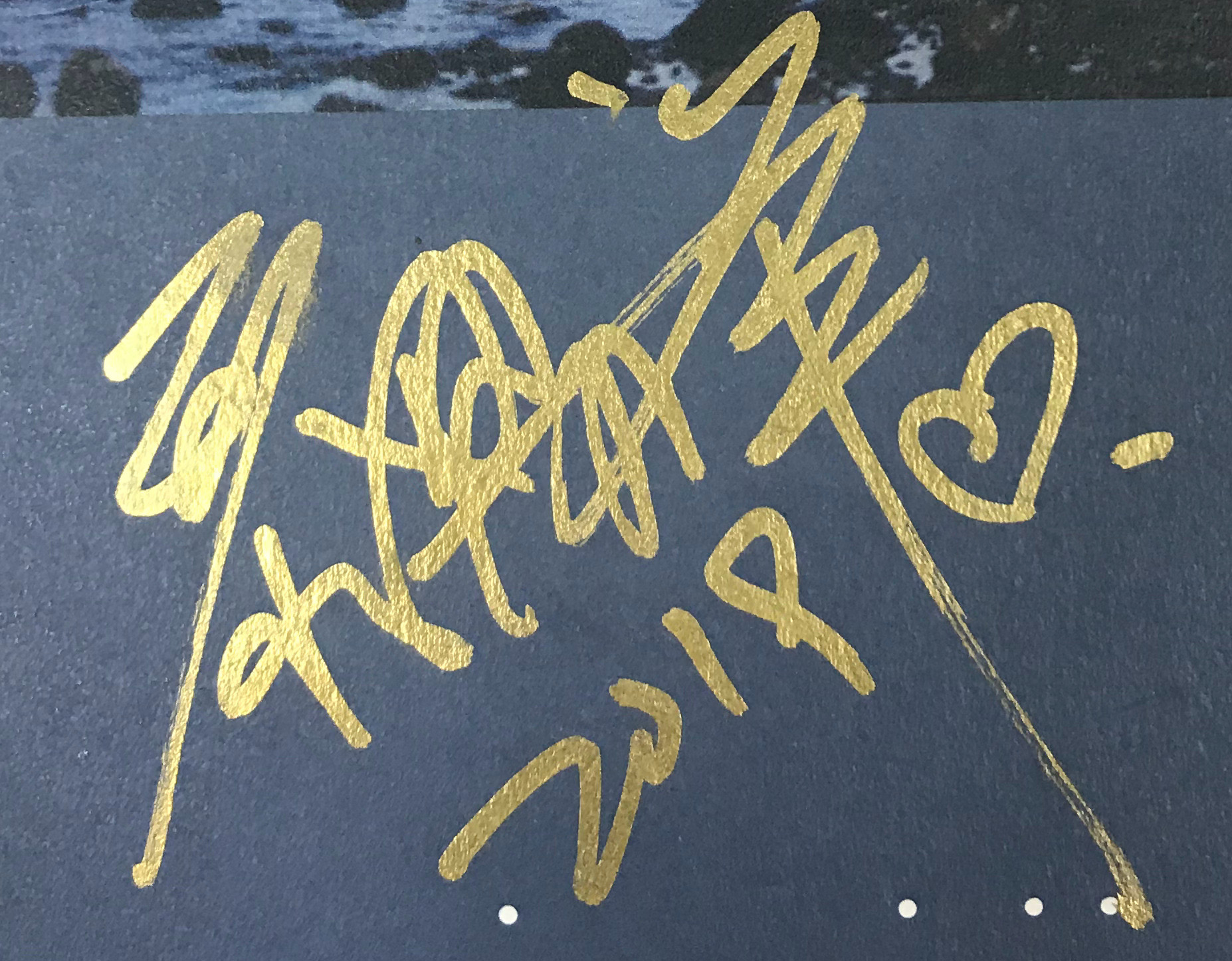 This is Wayne Lai's signature.